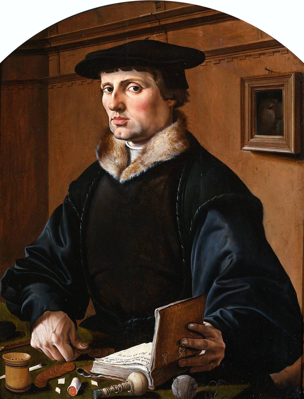 A man sitting in a room doing his accounts. Pendant of